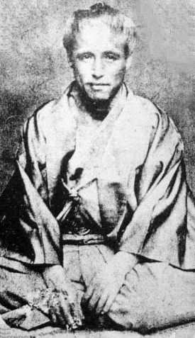 Kaishū Katsu (1823–99)